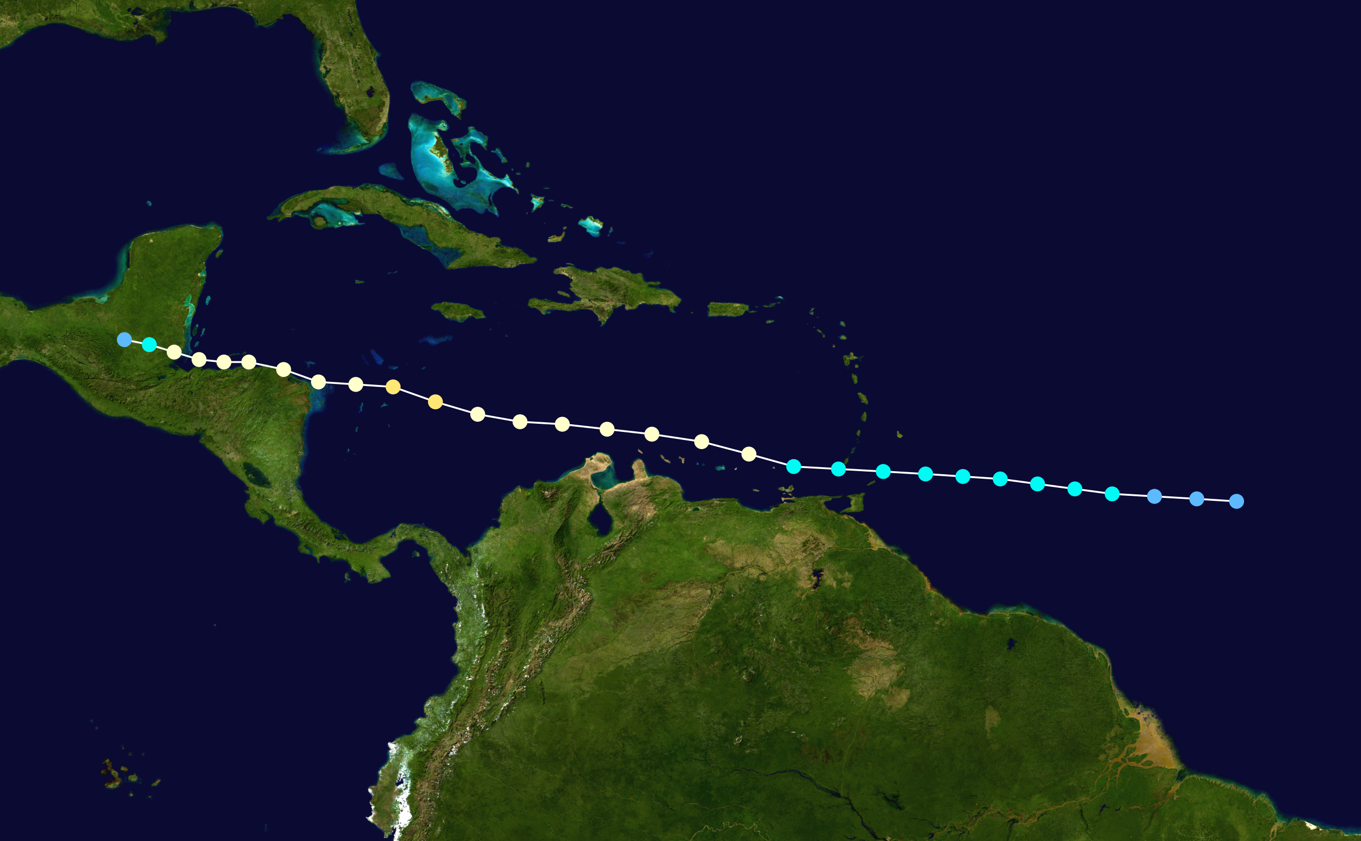 Track map of Hurricane Anna of the 1961 Atlantic hurricane season. The points show the location of the storm at 6-hour intervals. The colour represents the storm's maximum sustained wind speeds as classified in the Saffir–Simpson scale (see below), and the shape of the data points represent the nature of the storm, according to the legend below. Saffir–Simpson scale Tropical depression≤38 mph≤62 km/h Category 3111–129 mph178–208 km/h Tropical storm39–73 mph63–118 km/h Category 4130–156 mph209–251 km/h Category 174–95 mph119–153 km/h Category 5≥157 mph≥252 km/h Category 296–110 mph154–177 km/h Unknown Storm type Tropical cyclone Subtropical cyclone Extratropical cyclone / Remnant low / Tropical disturbance / Monsoon depression